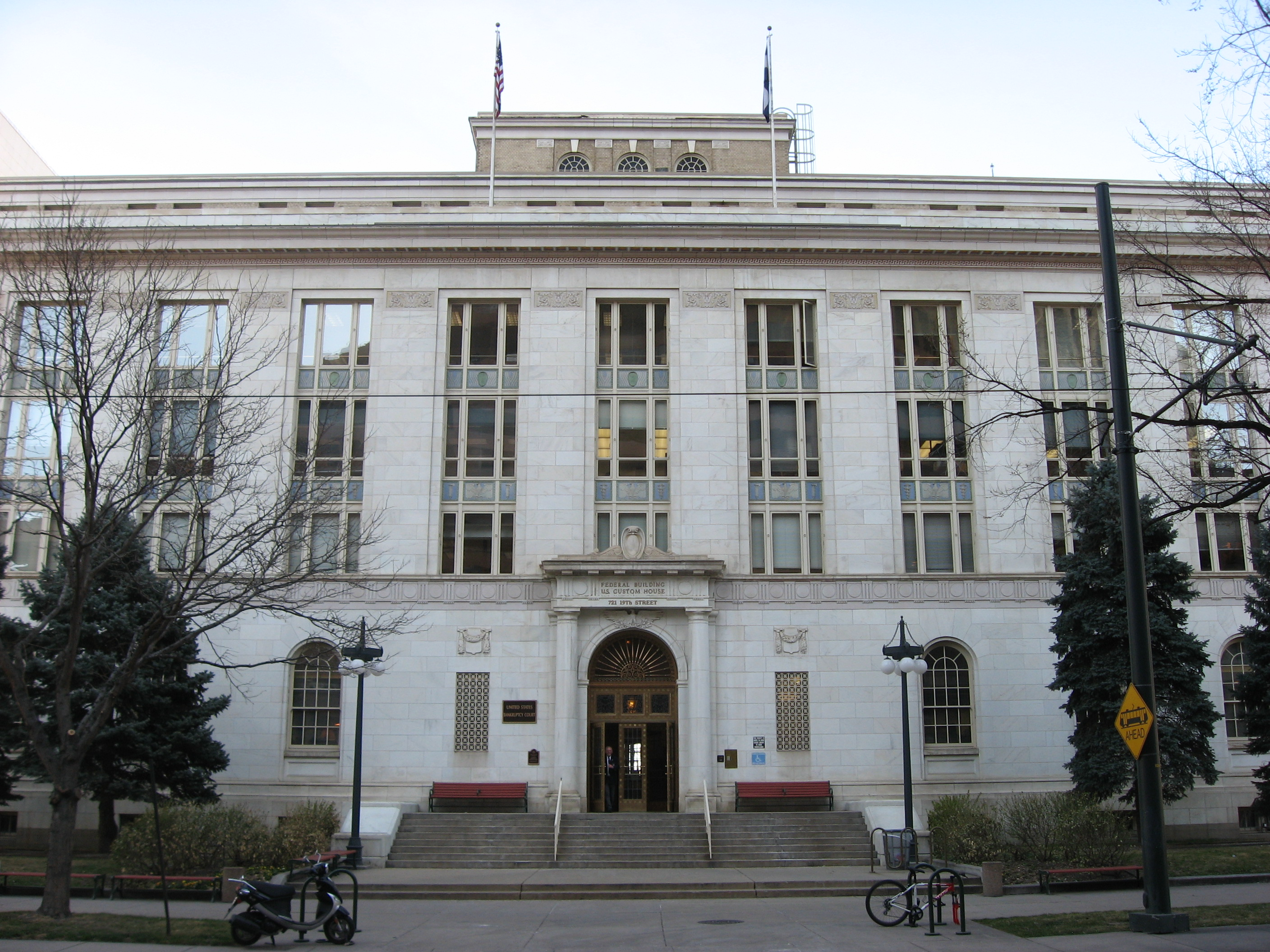 19th Street side of the U.S. Customhouse in Denver, Colorado, United States, which occupies the block surrounded by 19th, 20th, Stout, and California Streets. Aside from its function as a custom house, it is also the location of the local federal bankruptcy court. Built in 1931, the Italian Renaissance Revival building is listed on the National Register of Historic Places.